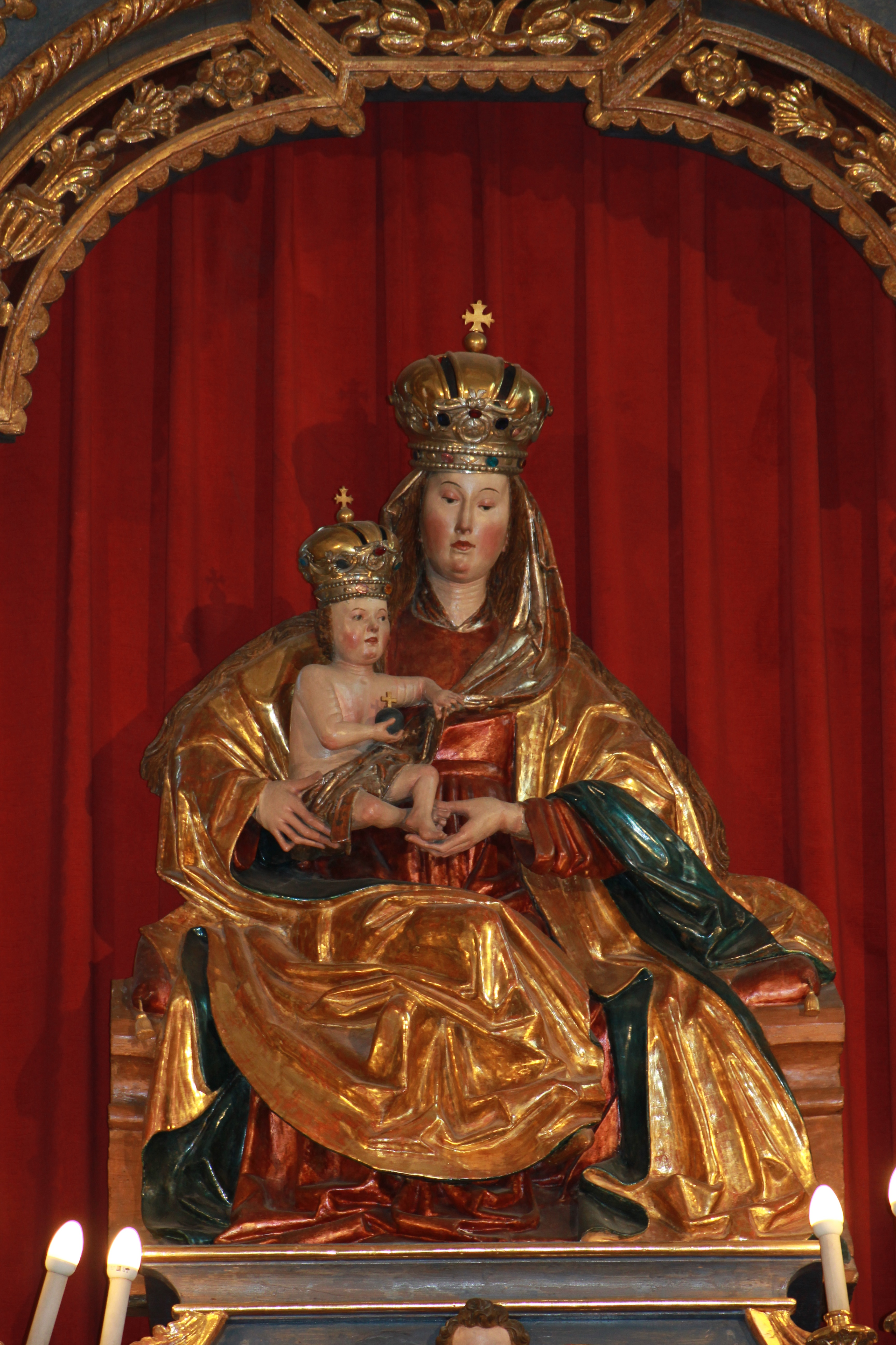 Parish-church in Maria Wörth - Mainaltar - Madonna